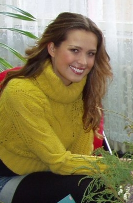 Czech model Petra Němcová.